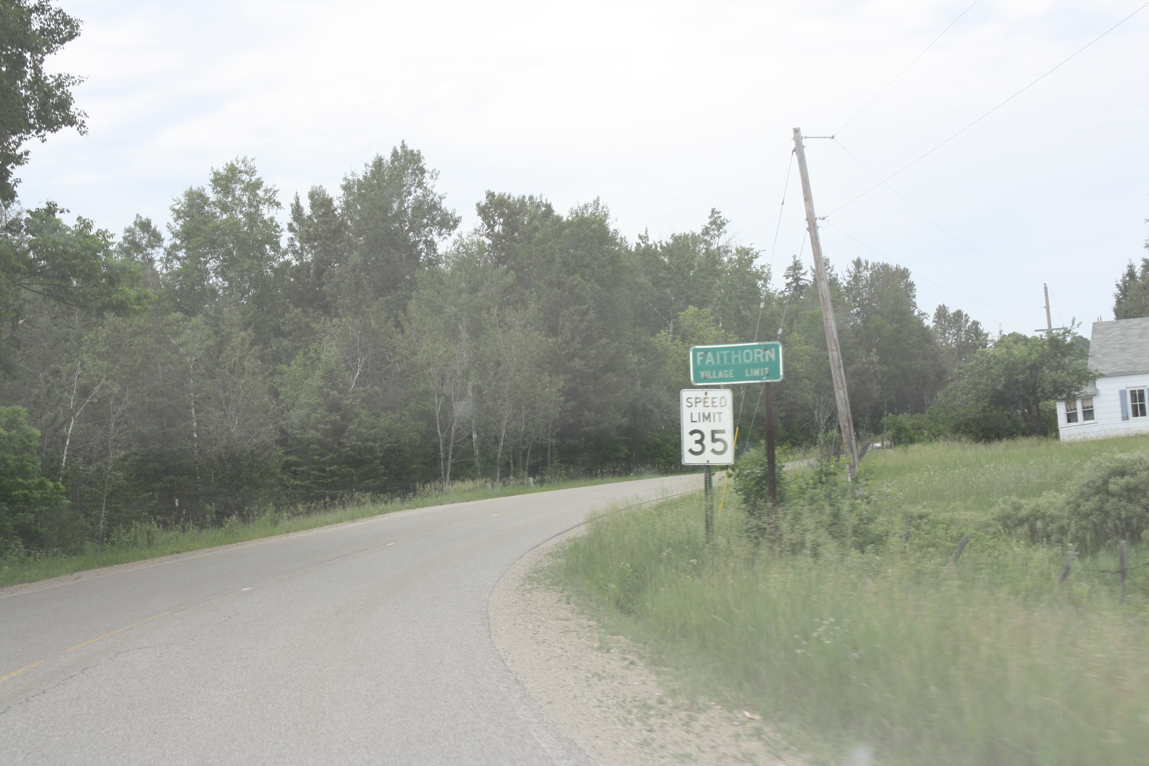 Looking north at the sign for the unincorporated community of Faithorn, Michigan.